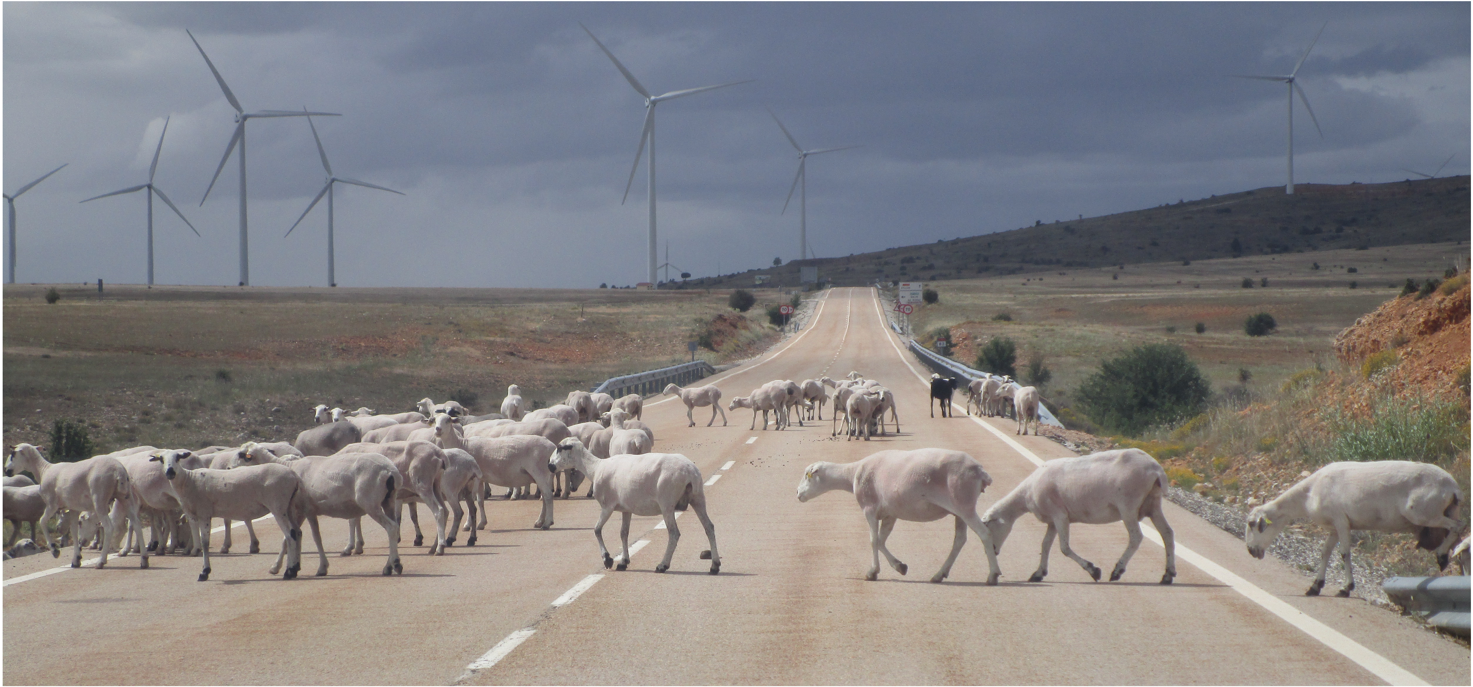 Sheep and goats on regional road CM-110 in Campisábalos, province of Guadalajara, Castile-La Mancha, Spain.